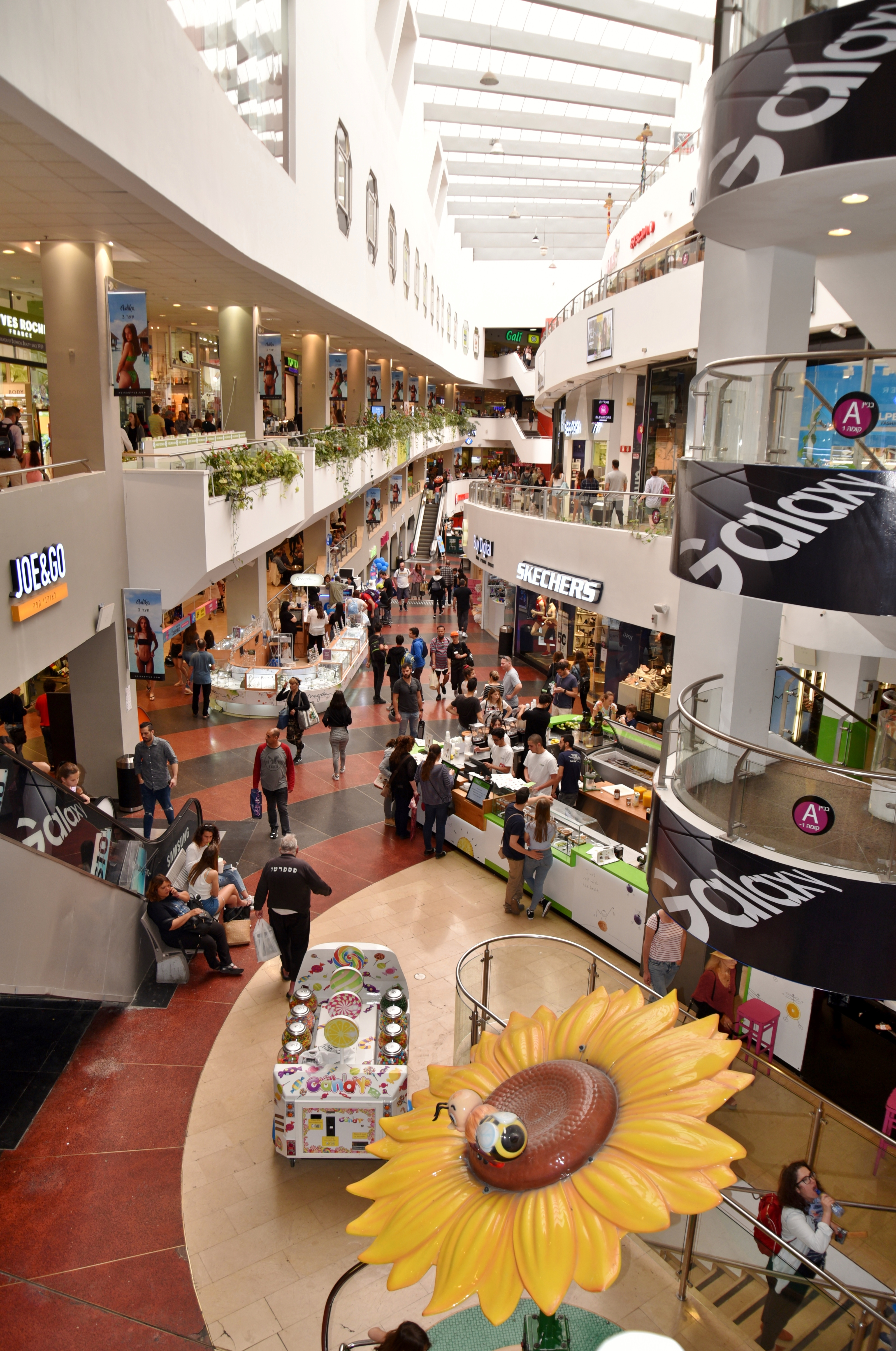 Interior view of the Dizengoff Center, Tel Aviv, Israel